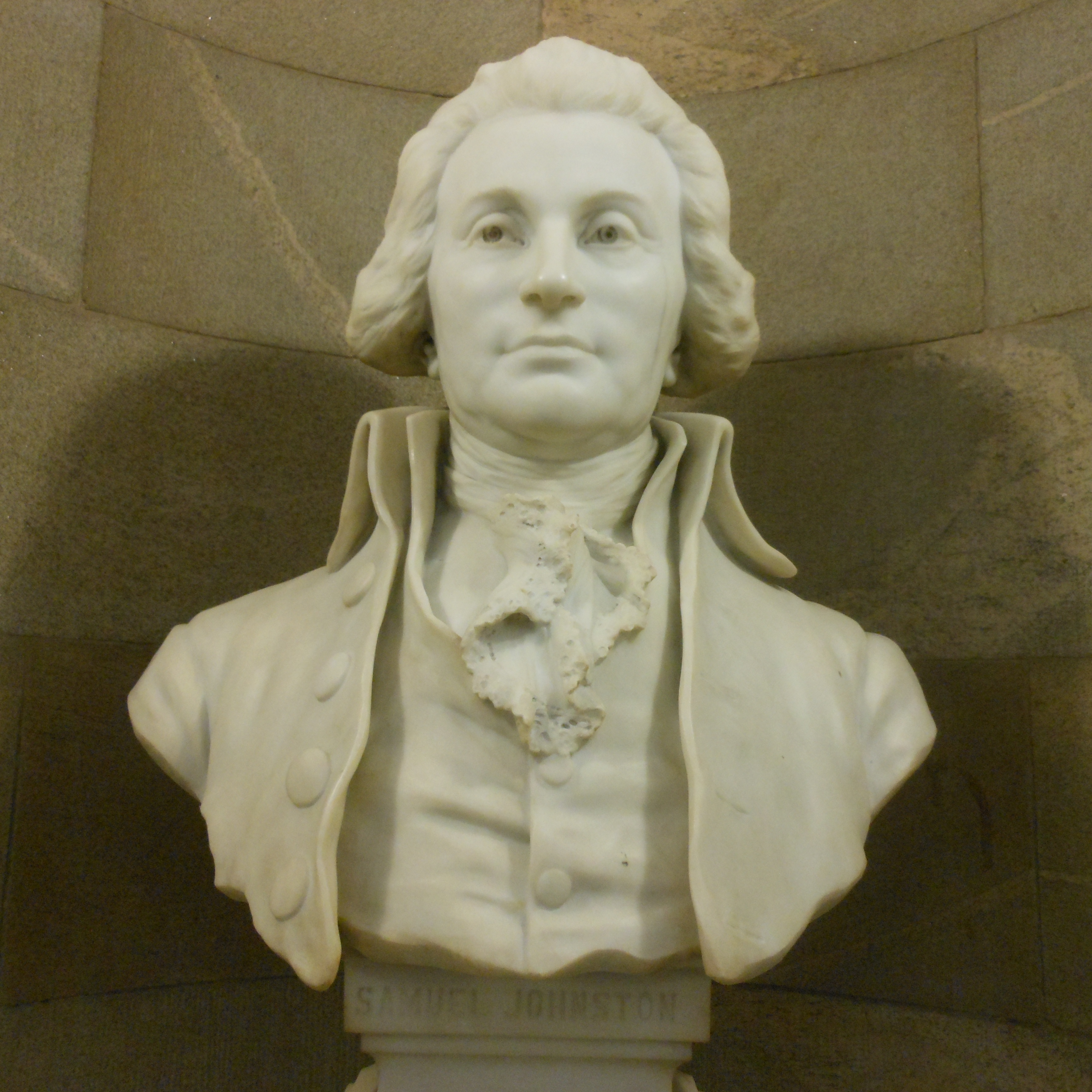 Samuel Johnston Bust Statue in Raleigh, NC